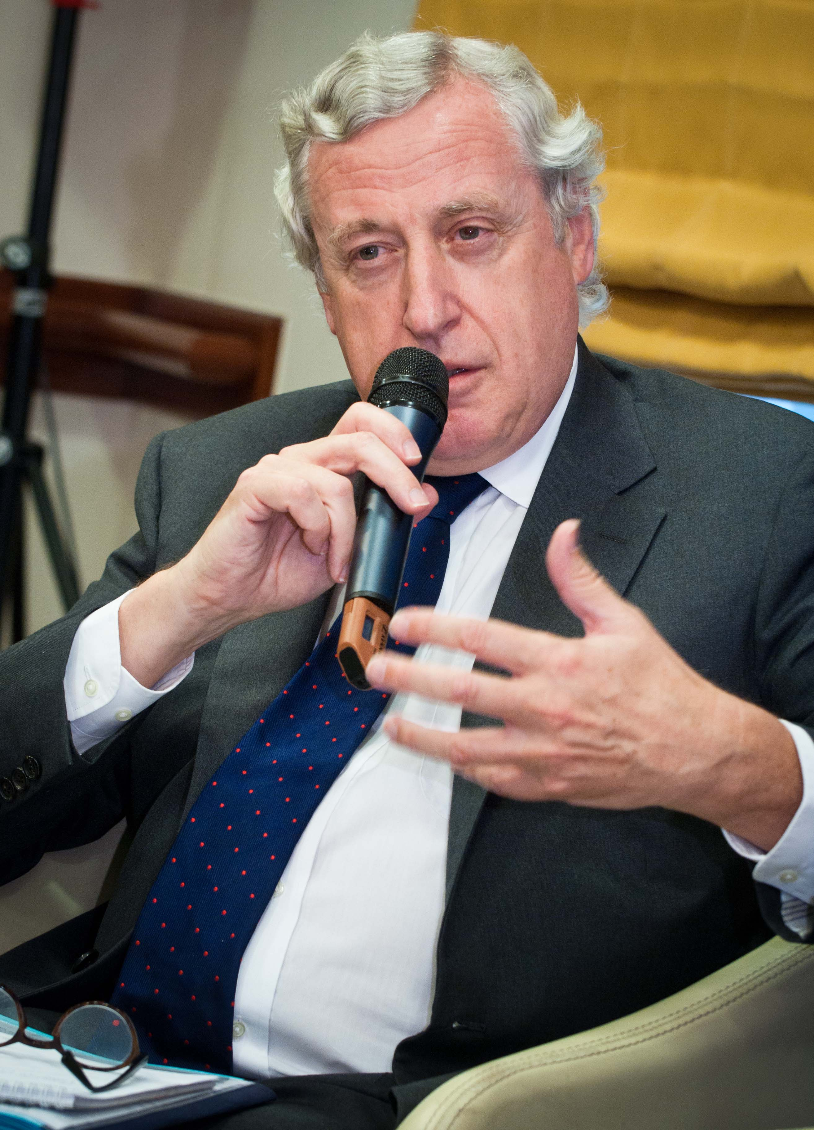 Friends of Europe - Asia 2050: Challenges ahead